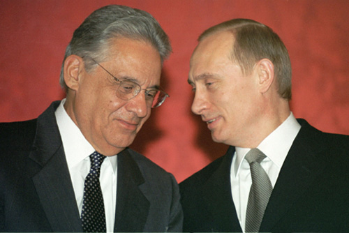 THE GRAND KREMLIN PALACE, MOSCOW. President Putin with President Fernando Henrique Cardoso of Brazil.